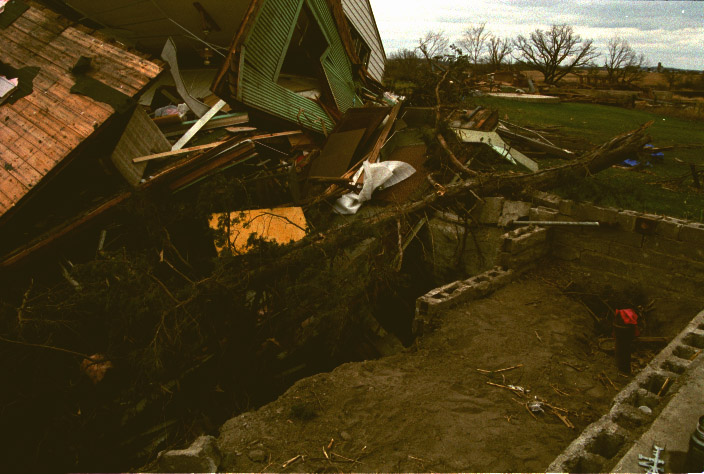 F2 tornado damage from near Albany